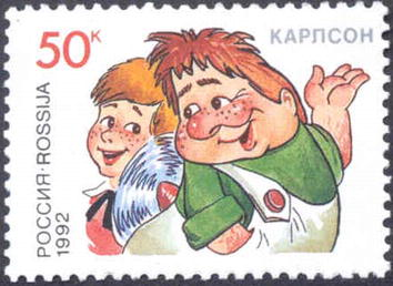 A Russian stamp portraying Karlsson from Karlsson-on-the-Roof